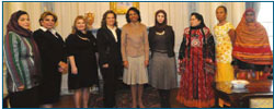 2008 International Women of Courage Awards 2008 International Women of Courage Awards (l-r) Suraya Pakzad - Dr. Eaman Al-Gobory - Valdete Idrizi - Cynthia Bendlin - Sec Rice - Nibal Thawabteh - Begum Jan - Virisila Buadromo - Farhiyo Farah Ibrahim